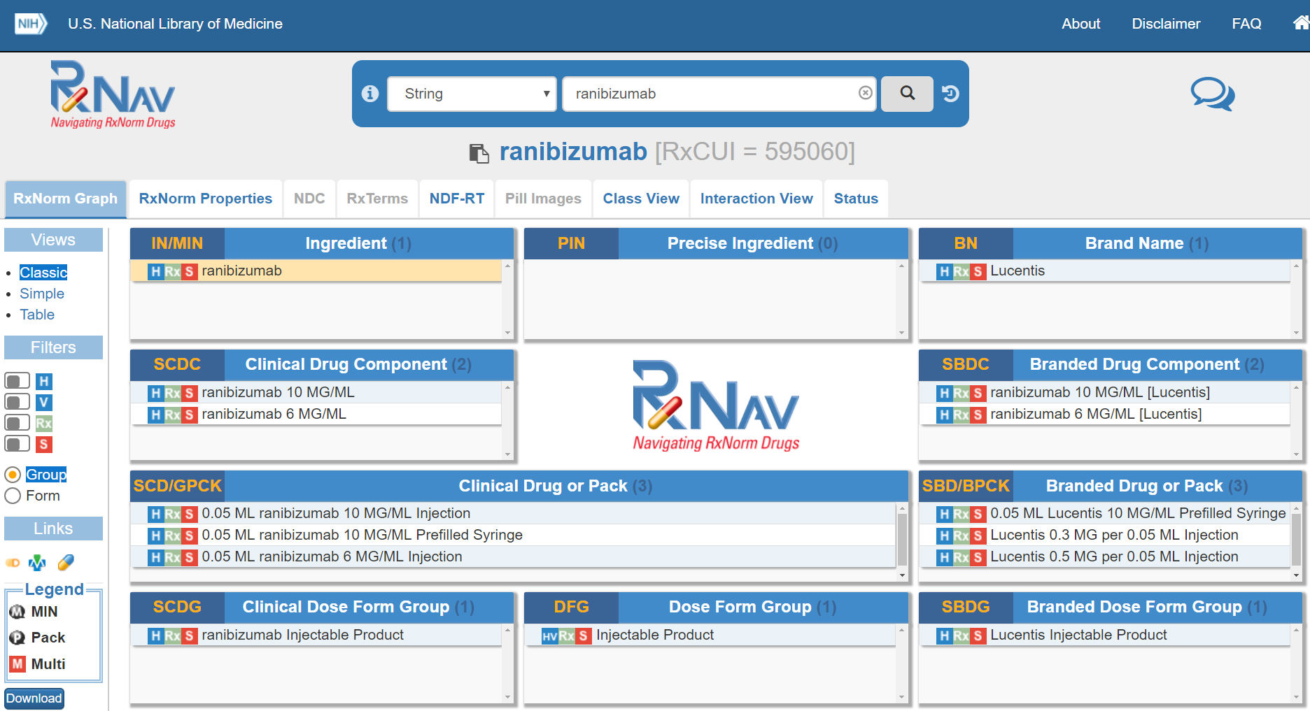 browser